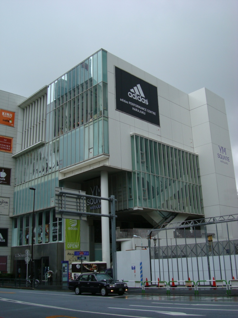 The YM Square Harajuku (YM Square Omotesando) building at Jingu-mae, Tokyo